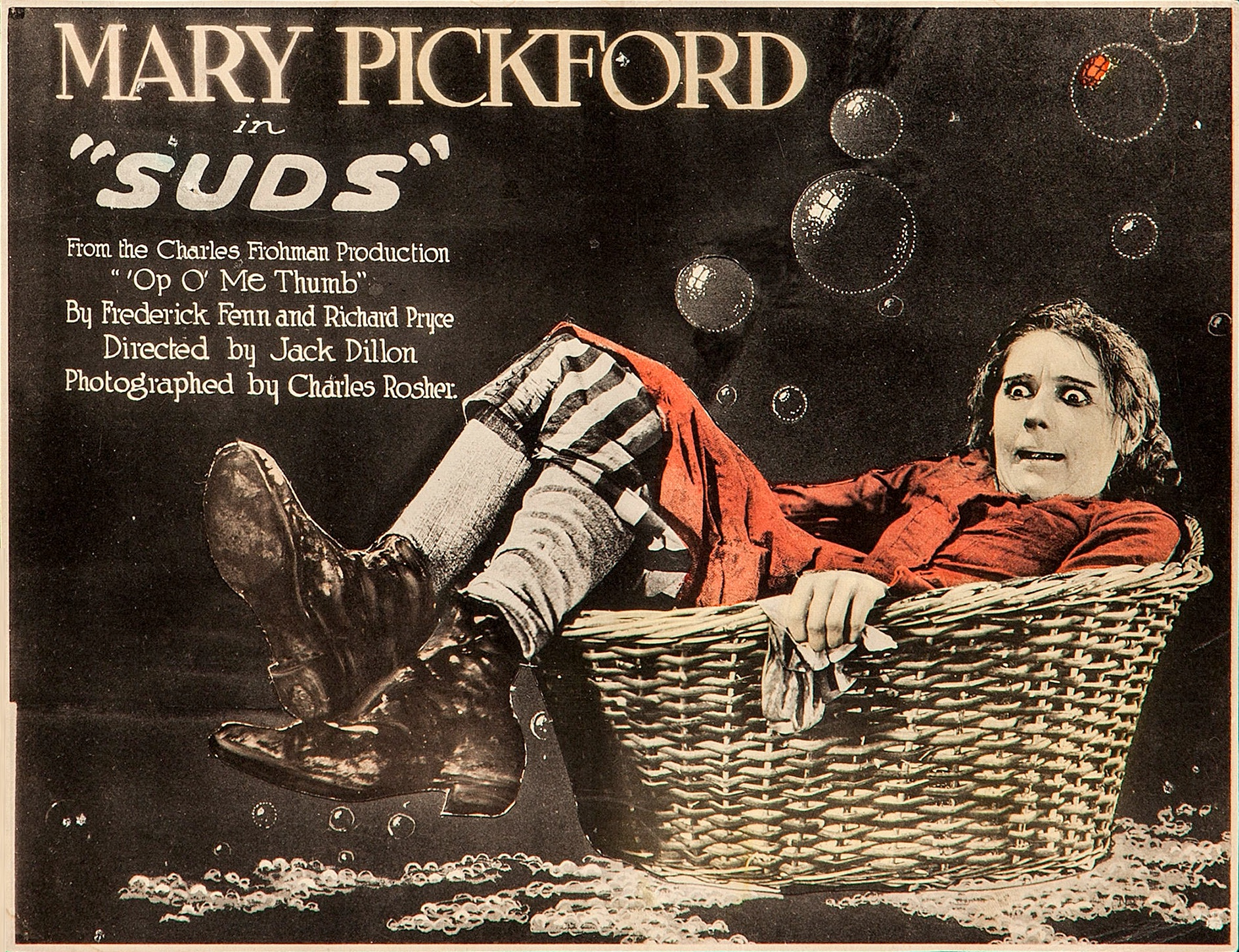 Suds is a 1920 silent film directed by John Francis Dillon and starring Mary Pickford. This is a lobby card for the film.